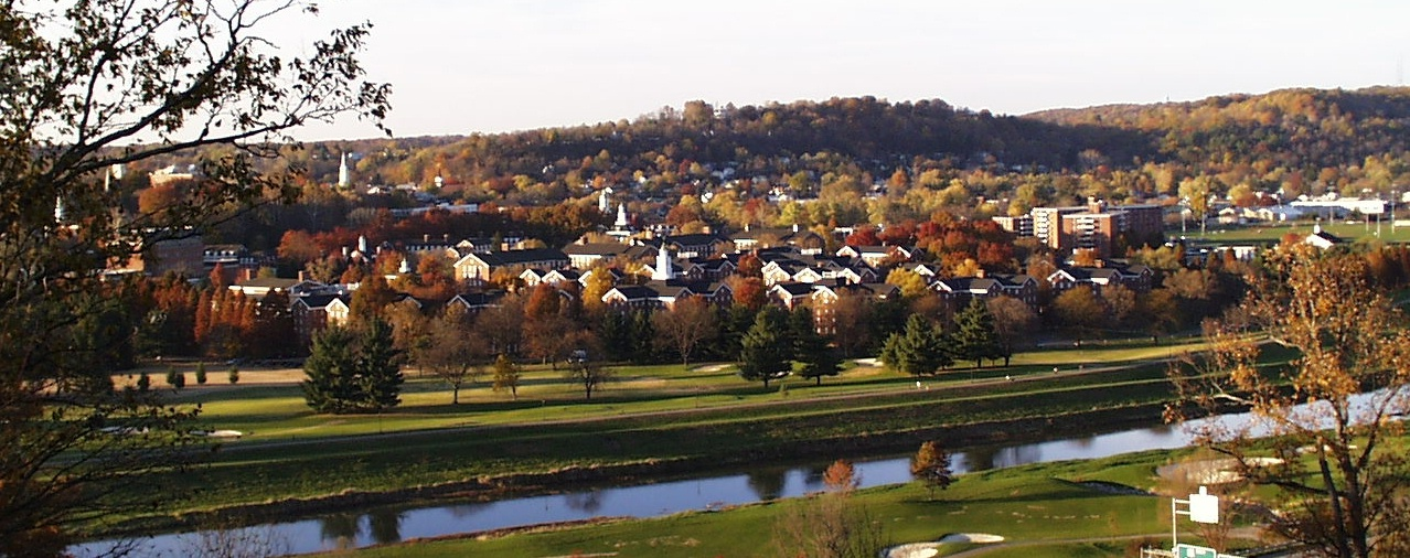 Taken from the English Wikipedia. Original Description: view of campus, Ohio University. Original History: 16:24, 19 February 2006 . . Ottawa80 (Talk) . . 1278x506 (331442 bytes) (view of campus, Ohio University.)